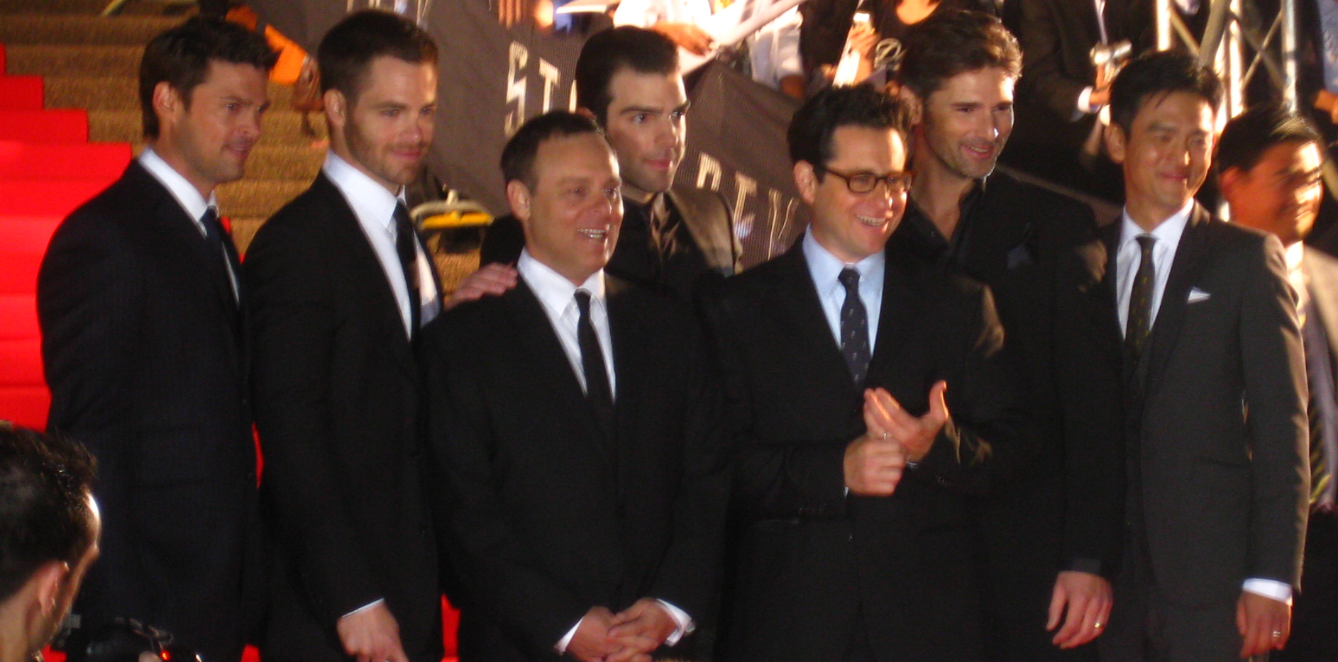 Star Trek film premiere at the Sydney Opera House. From left to right: Karl Urban (Leonard McCoy), Chris Pine (James T. Kirk), Bryan Burk (Executive Producer), Zachary Quinto (Spock), J.J. Abrams (Producer, Director), Eric Bana (Nero), and John Cho (Sulu).